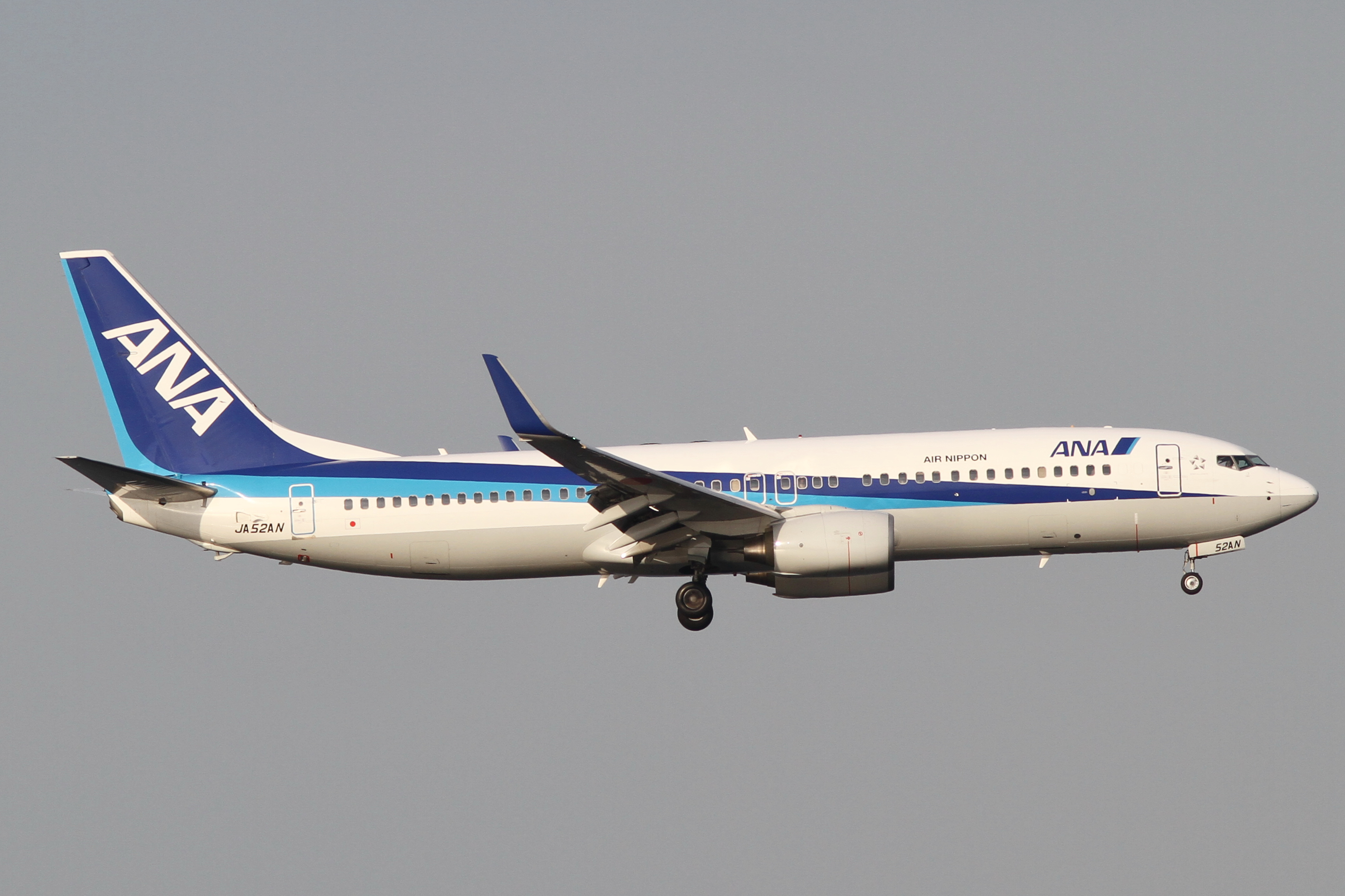 Tokyo International Airport, Boeing 737-881, c/n:33887, All Nippon Airways